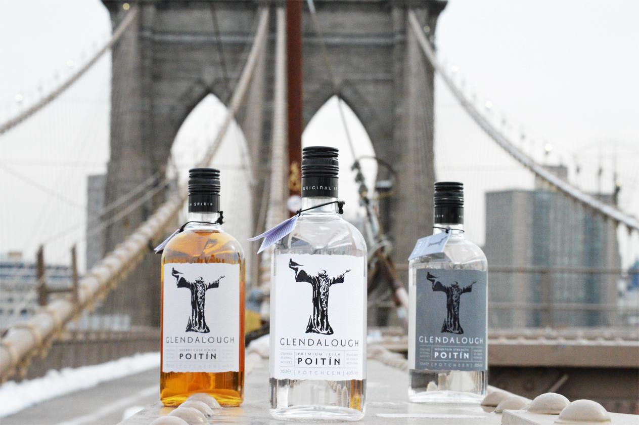 A Poitín Range.